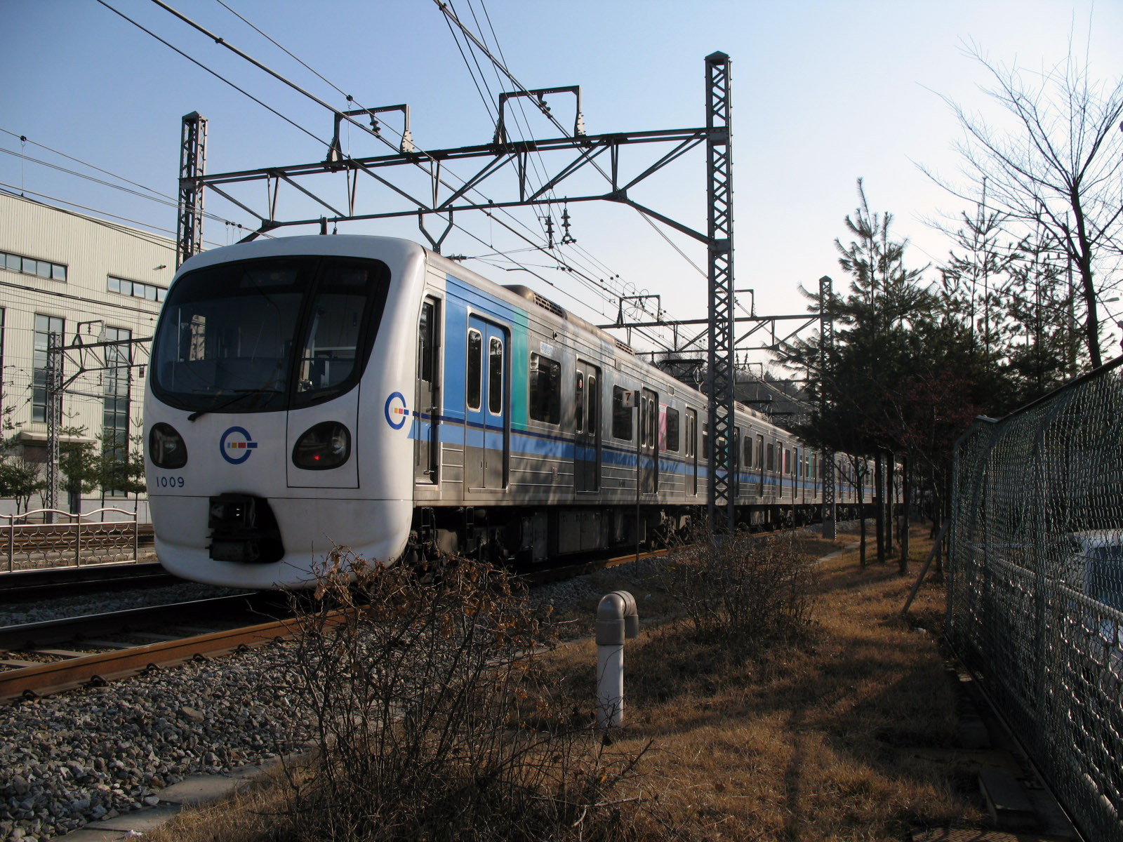 The trains of Incheon Rapid Trainst Corporation line 1 at near Gyulhyeon Station.